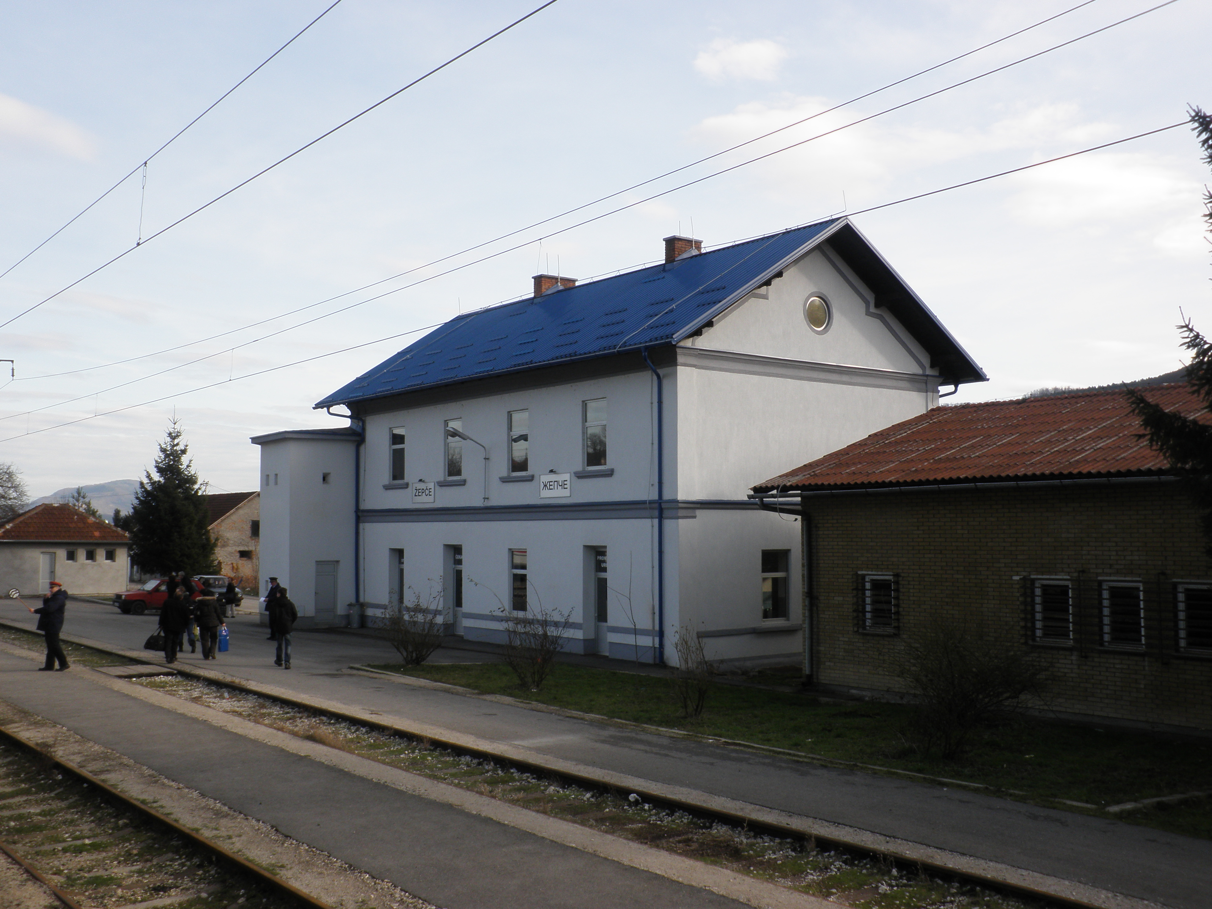 Žepče railway station